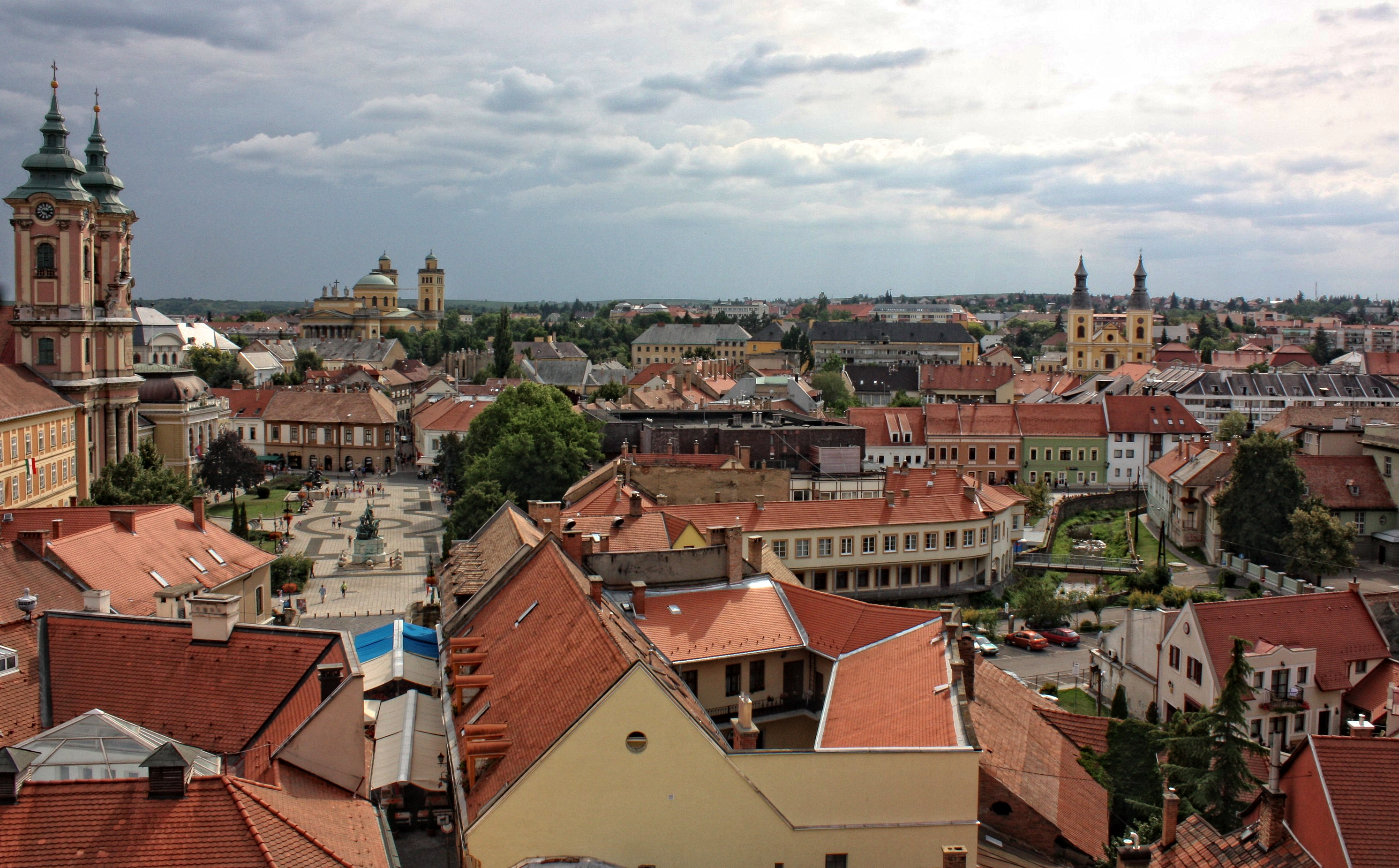 Eger, view from the Castle